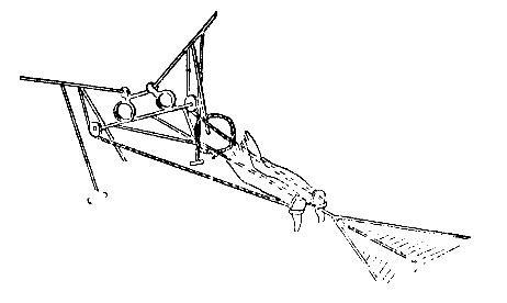 Leonardo Da Vinci first human powered flying machine sketch as shown in 'Progress in Flying Machines', issue: Wings and Parachutes.